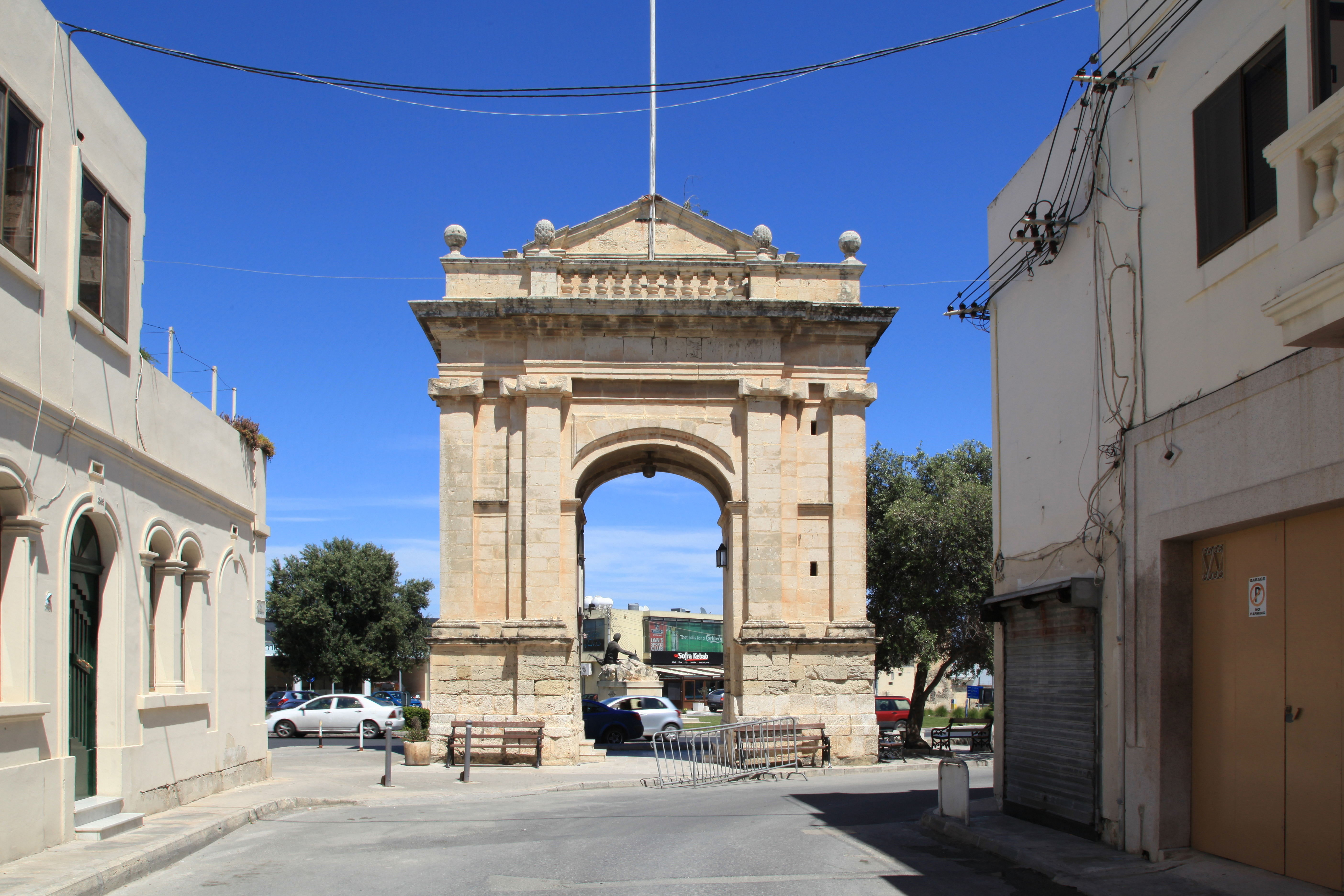 De Rohan Arch at Triq il-Kbira in Żebbuġ, Malta